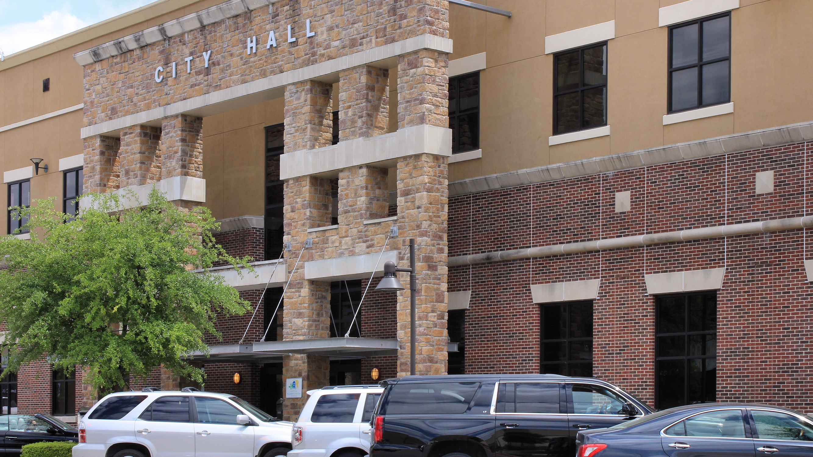 Bee Cave, Texas City Hall west elevation